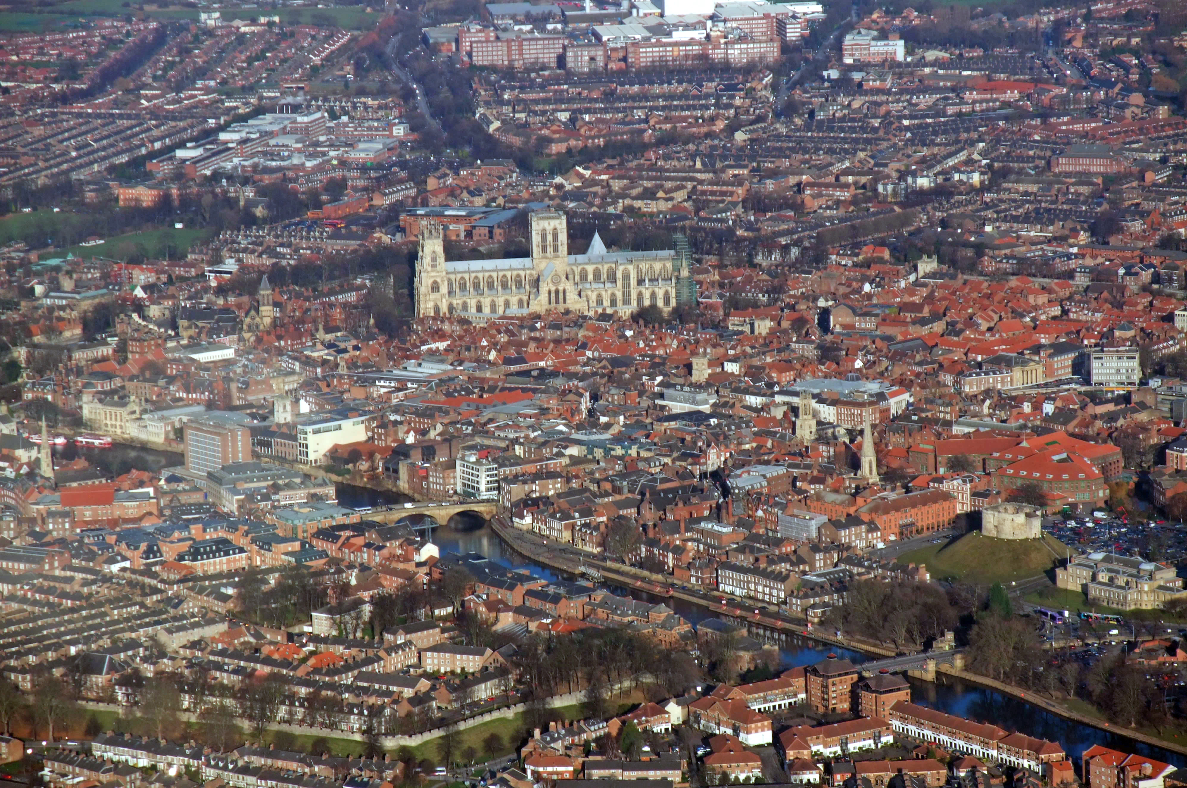 Bird's Eye View of York